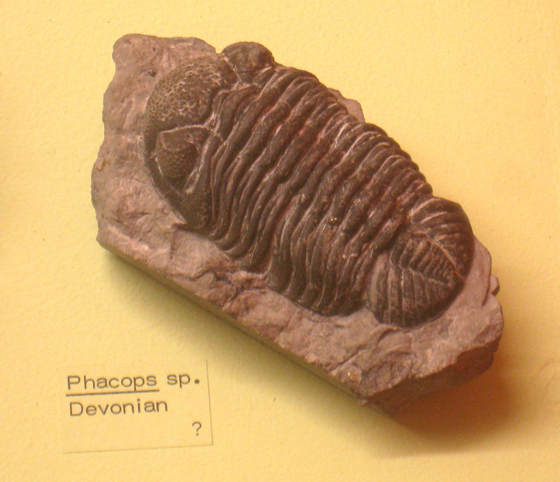 Phacops. Exhibit Museum of Natural History, University of Michigan, 1109 Geddes Avenue, Ann Arbor, Michigan, USA.